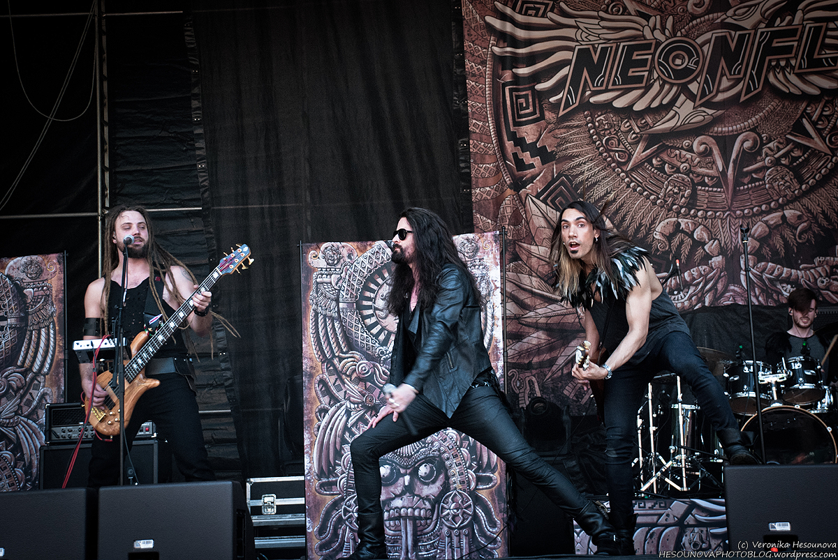 Neonfly performing at Metalfest in Pilsen, Czech Republic in 2017